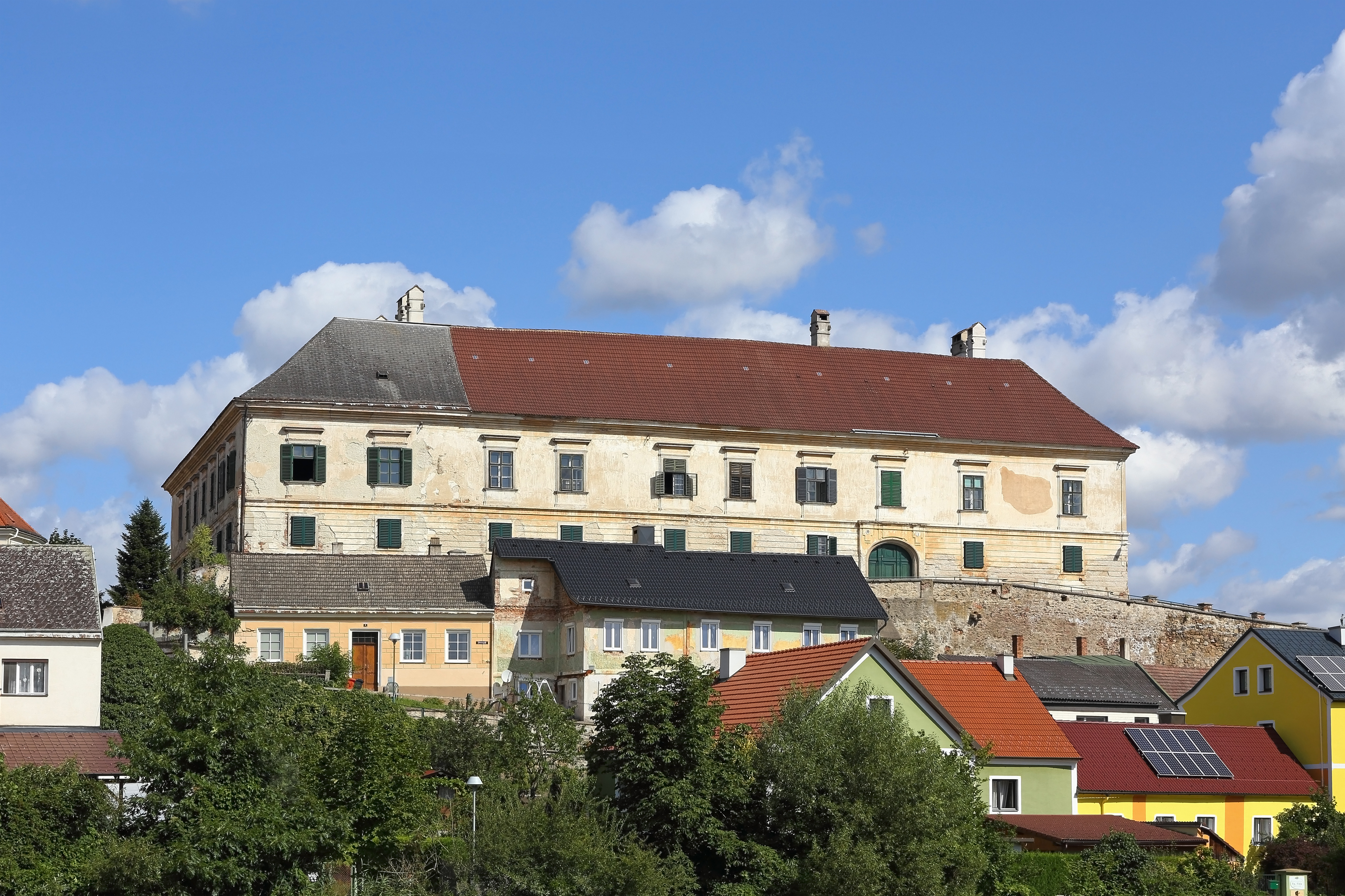 Schloss Waidhofen, Lower Austria.